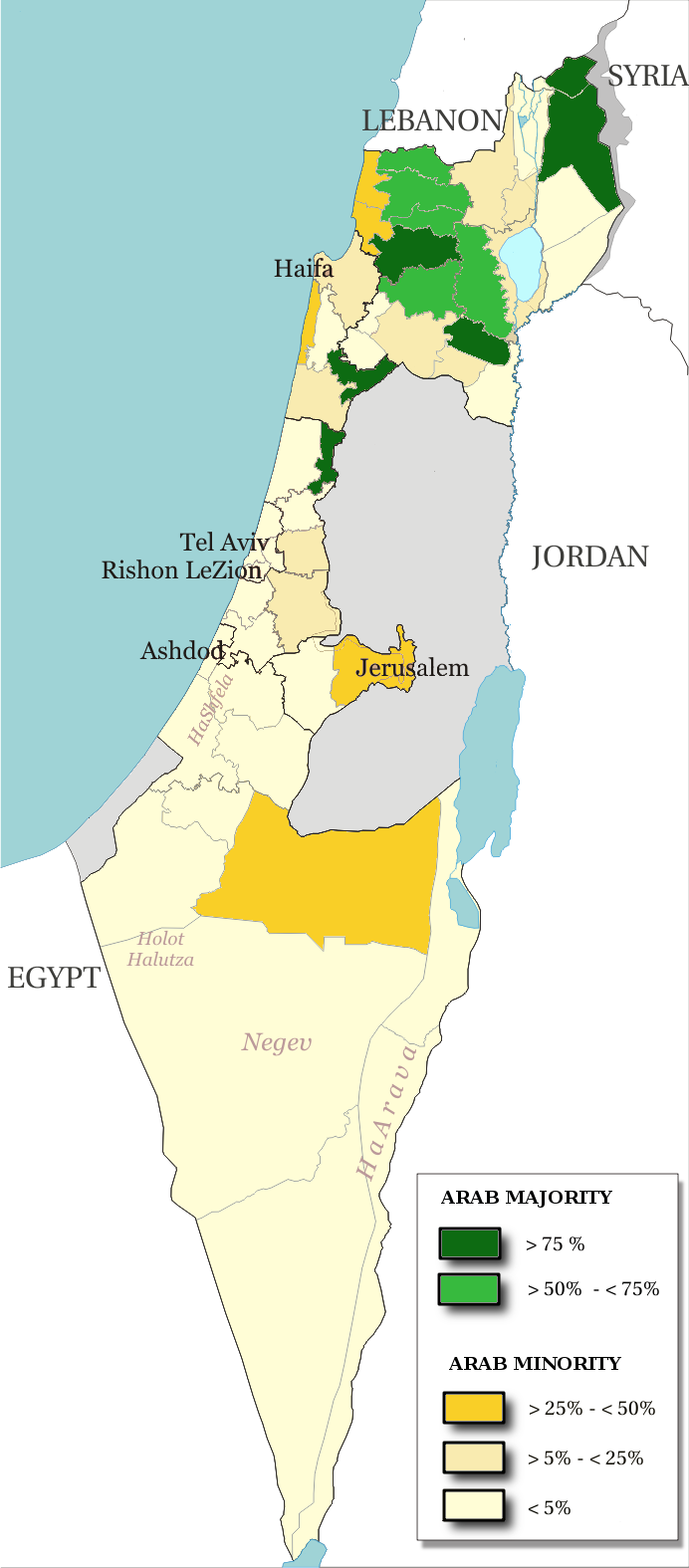 Map of the officials 50 "natural regions" of Israel, with their proportions of arab population. The map includ the Golan heights and east Jerusalem, two areas annexed by Israel, annexions not recognize by UNO. The map is based on the demographic situation 2000, and is based upon the arab population in Israel [PDF], a publication (Statistilite N°27) of the israeli Center Bureau of Statistics (CBS) diffused in november 2002.